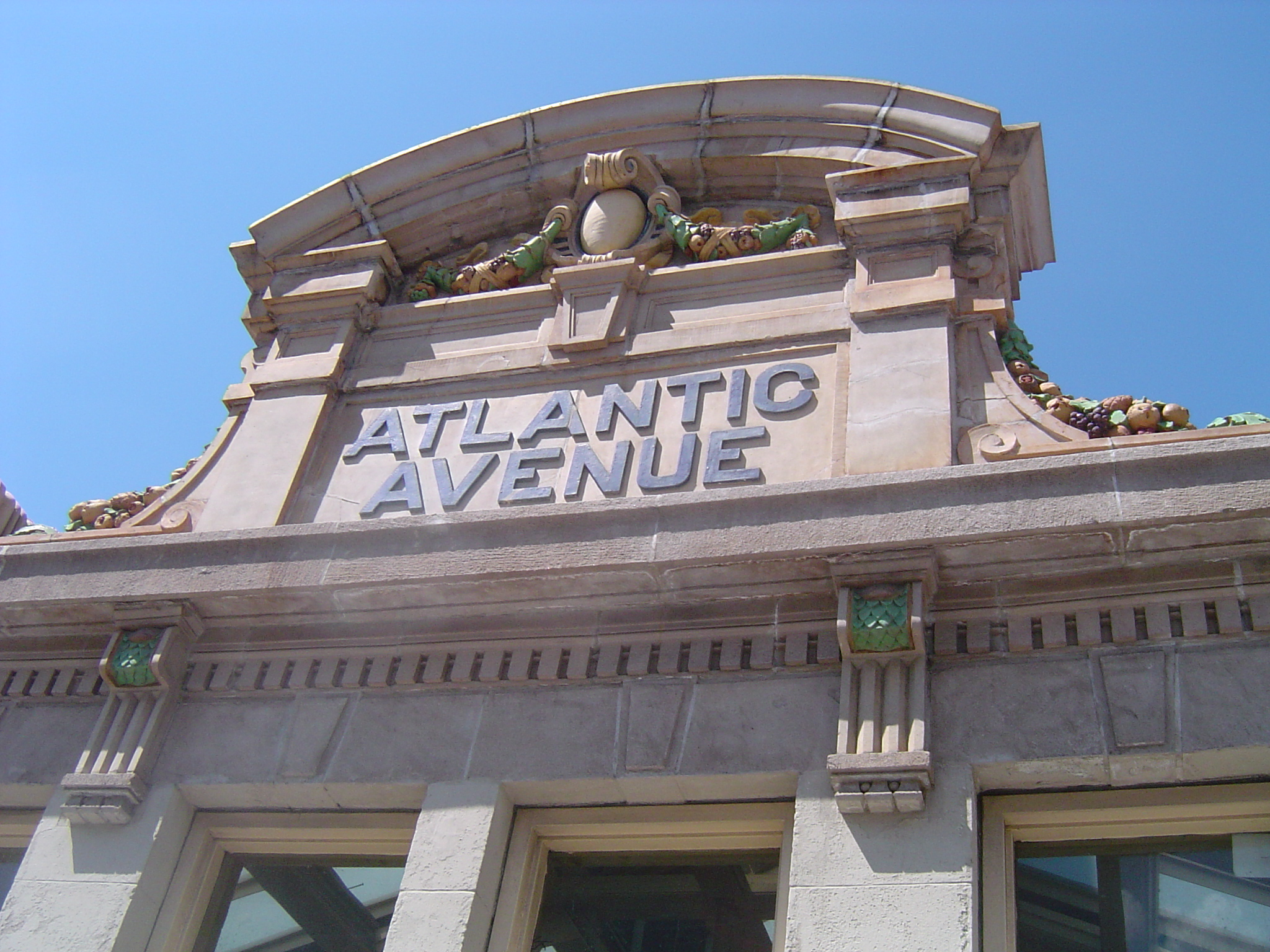 Former headhouse of Atlantic Ave. subway station (opposite the Target). Category:Images of Brooklyn